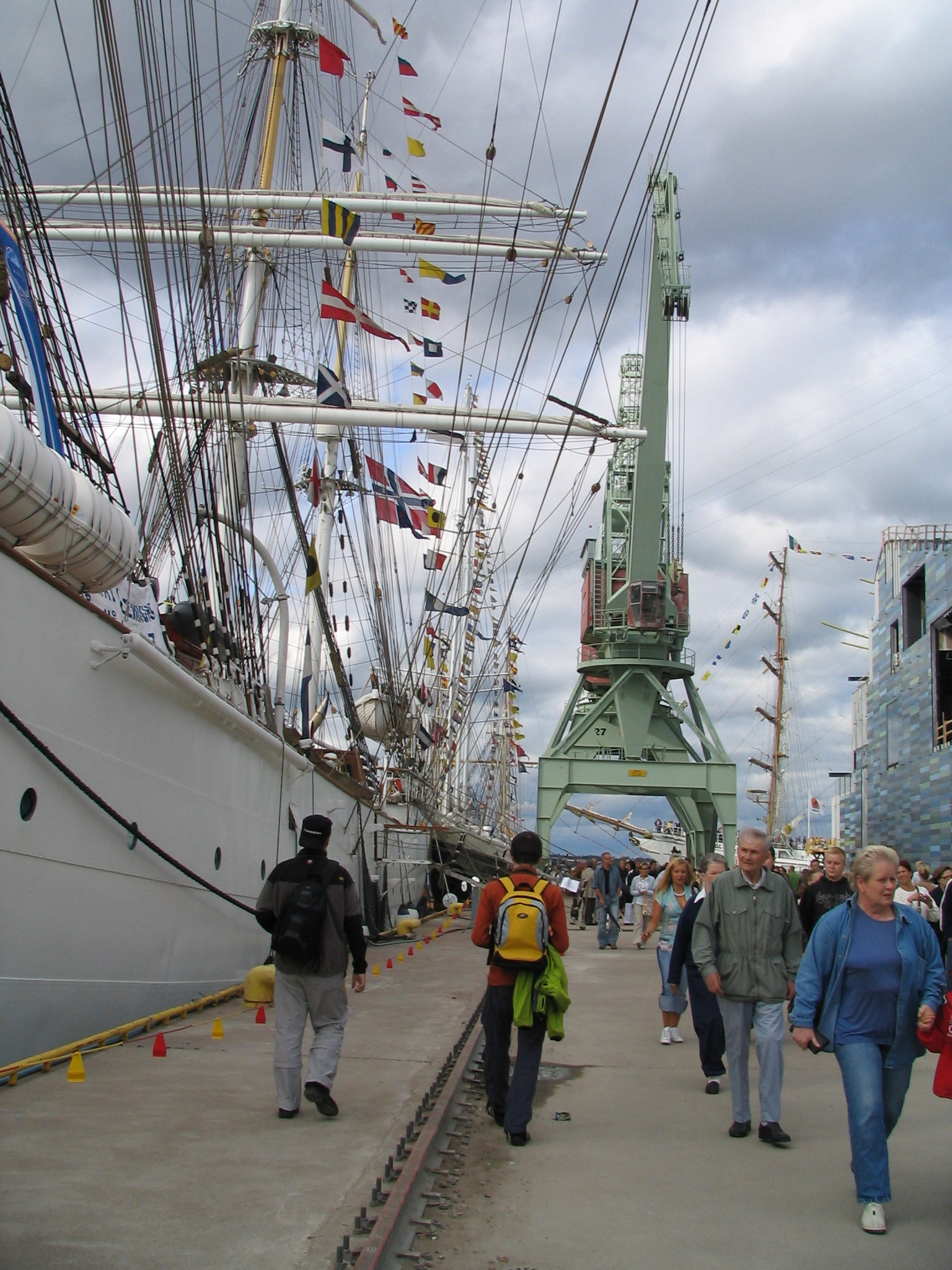 Tall Ship Race Kotka 2007. The ship at left is Statsraad Lehmkuhl